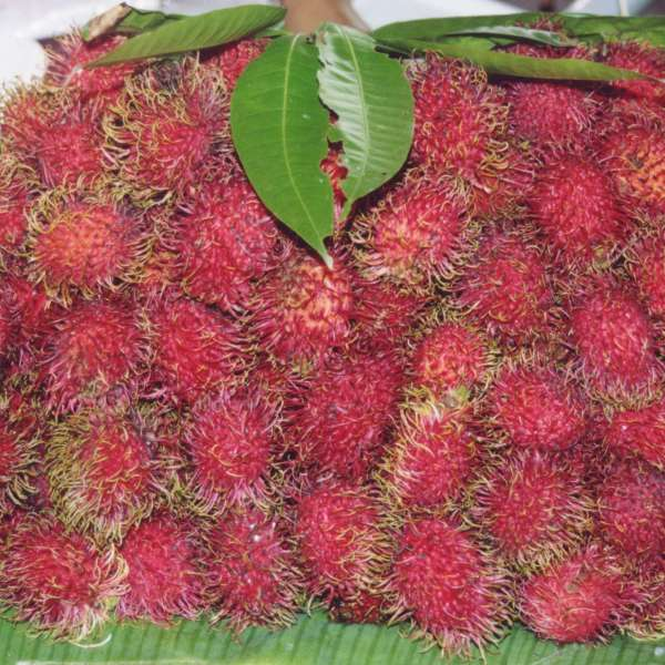 Rambutan (Nephelium lappaceum) fruit Photo taken by User:Ahoerstemeier at the Damoen Saduk floating market, Thailand on July 13, 2003.